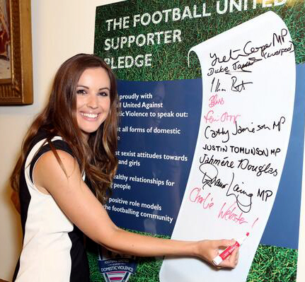 Photo of Charlie Webster Taken on 2010 Mac 4x4